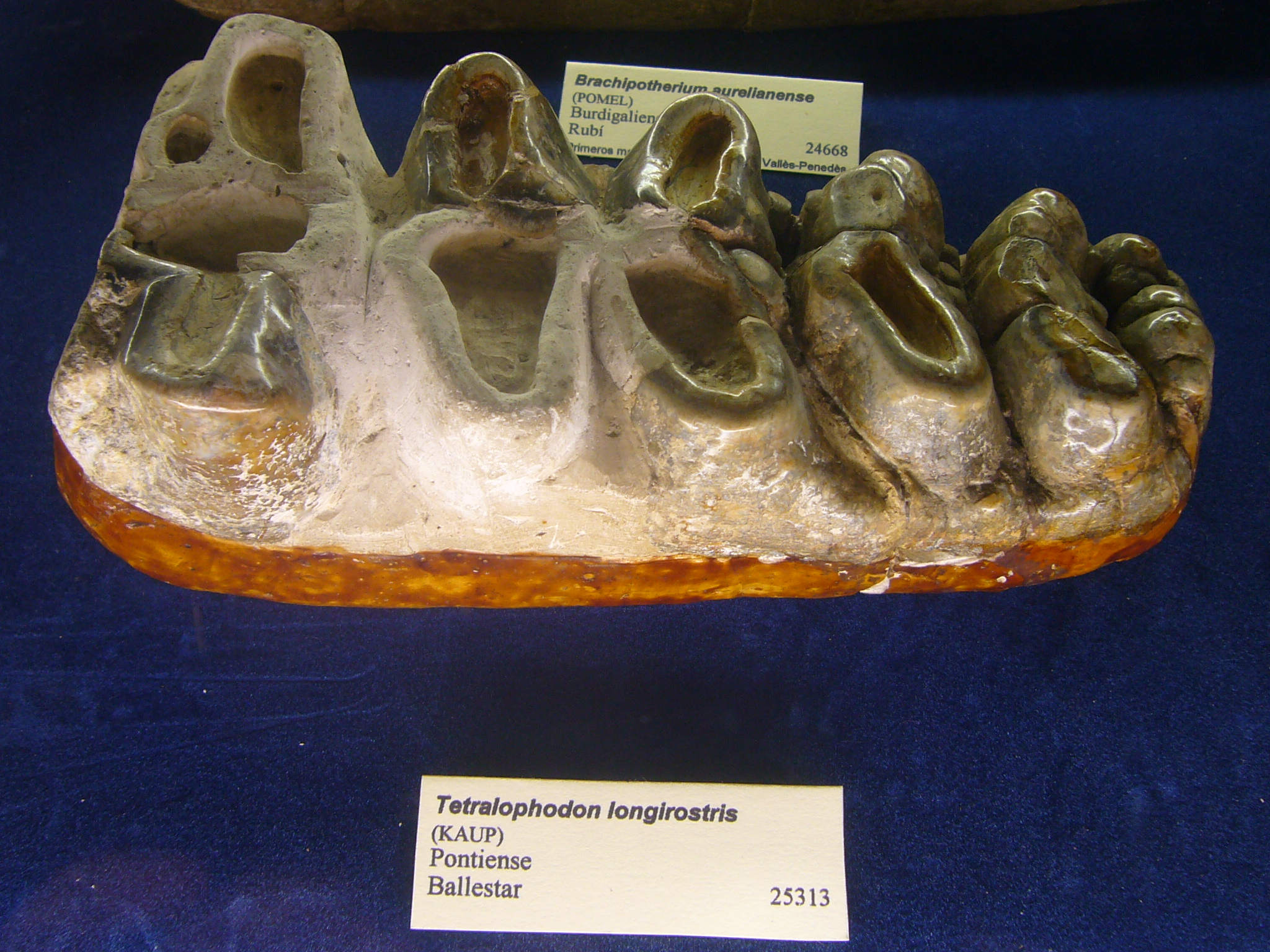 Tetralophodon longirostris, from Ballestar. Fossils. Collection of paleontology of the Geological Museum of the Barcelona Seminari (Museu Geològic del Seminari de Barcelona).